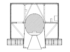 diagram of CONTOUR spacecraft